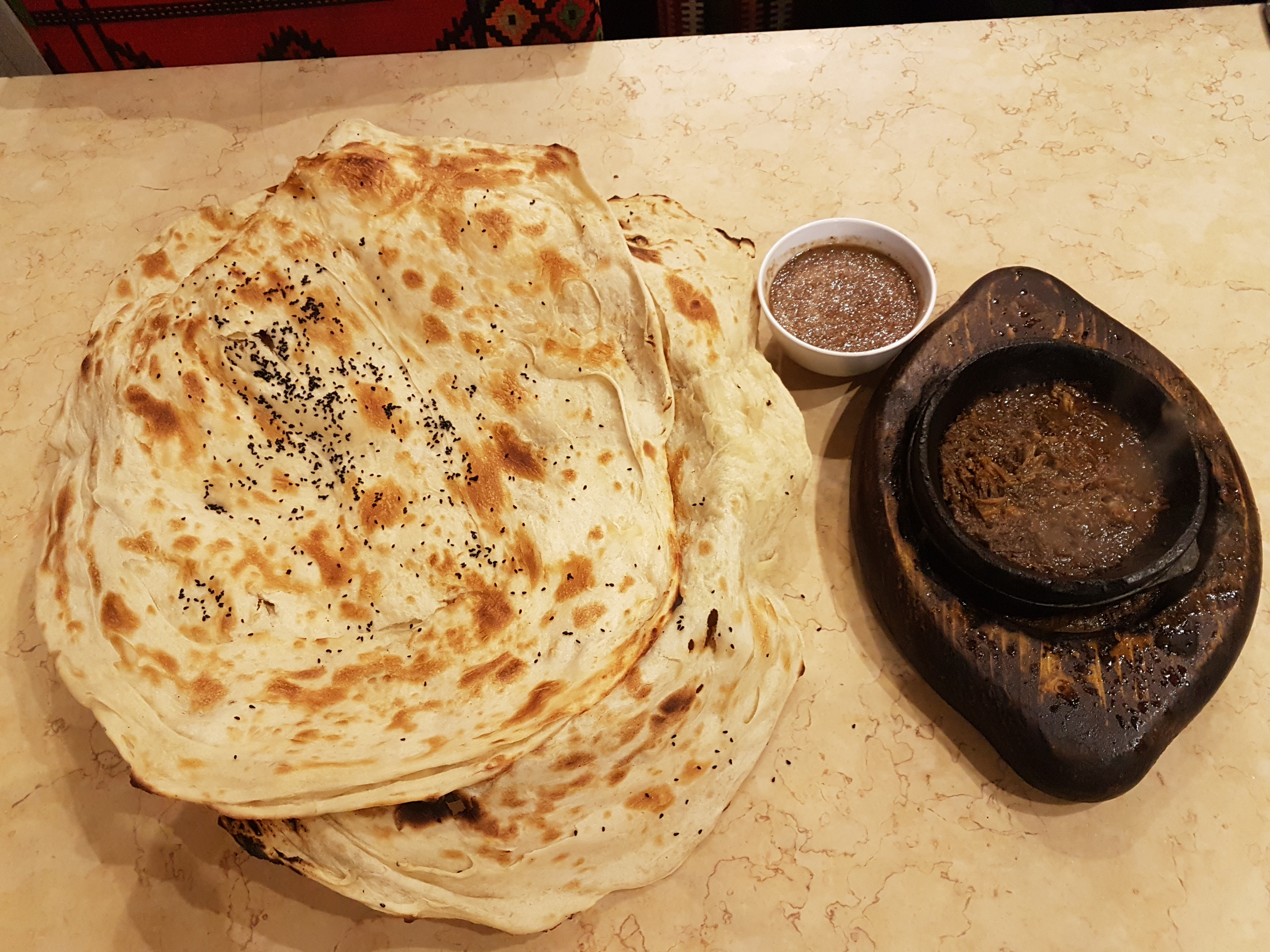 This is a Yemeni traditional bread called Mulawah and a Yemeni food called Fahsa